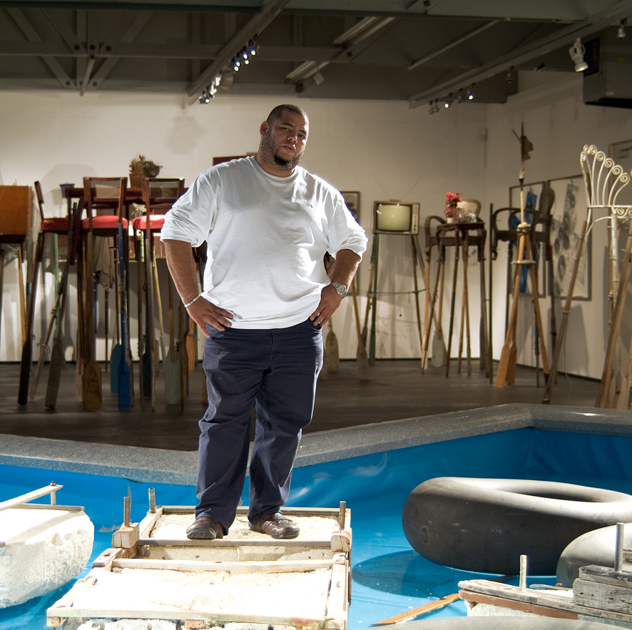 Kcho at Kunsthalle Attersee, July 2005